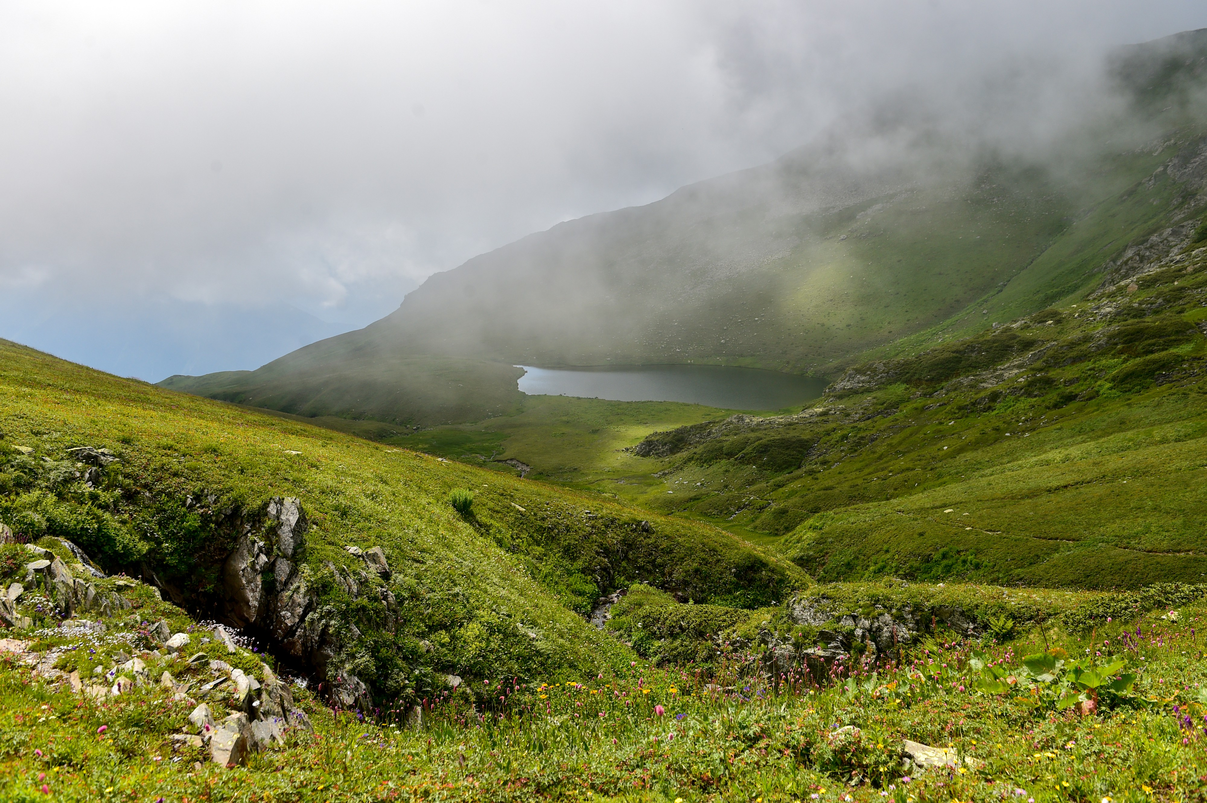 Lake "Ltnari" on Utviri Pass